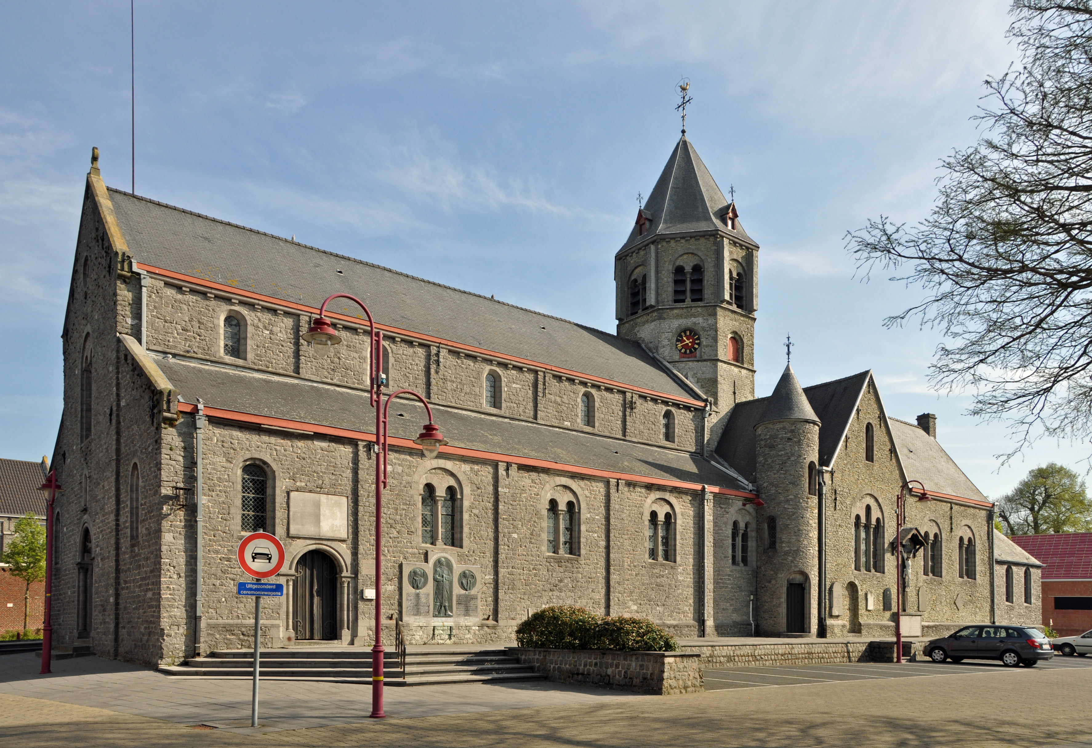 Lotenhulle (Province of East Flanders, Belgium): the Holy Cross church, seen from the south-west